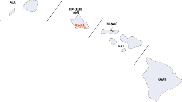 Map showing five counties of Hawaii